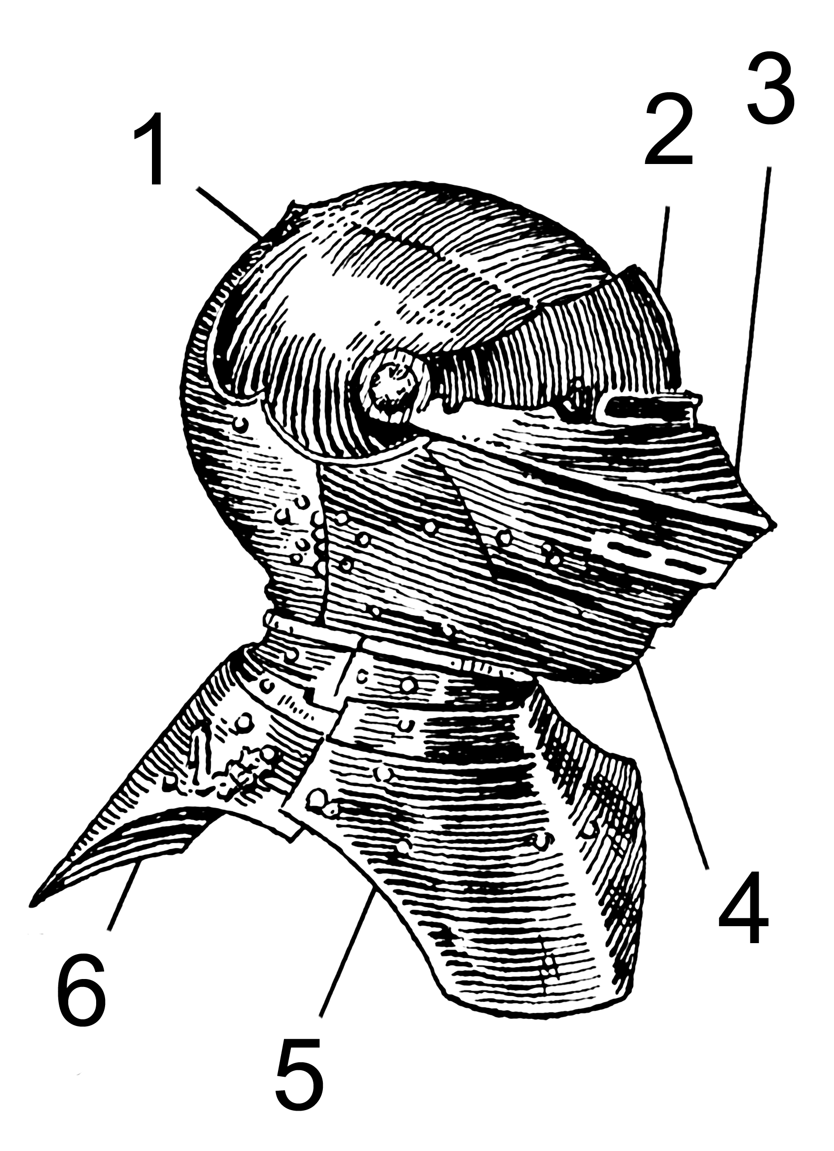 Line art drawing of an armet Crown or cap Upper visor Lower visor Bevor Gorget (front) Gorget (rear)